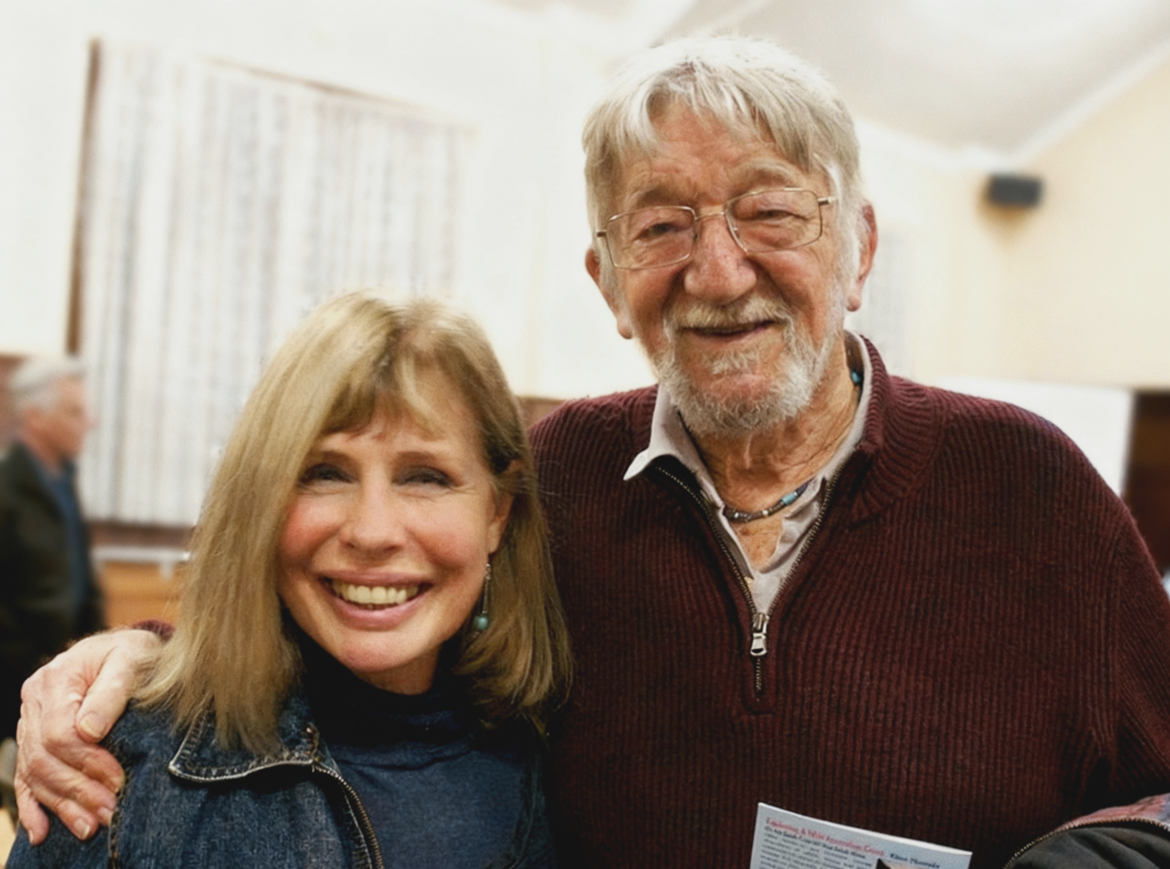 In 1954 Alex Hood &John Meredith were among the members of The Bushwhackers, the founders of the Bush Music Club, Australia's oldest folk club. Photographer: Sandra Nixon. This image is a lightly edited crop from the original file which is at .